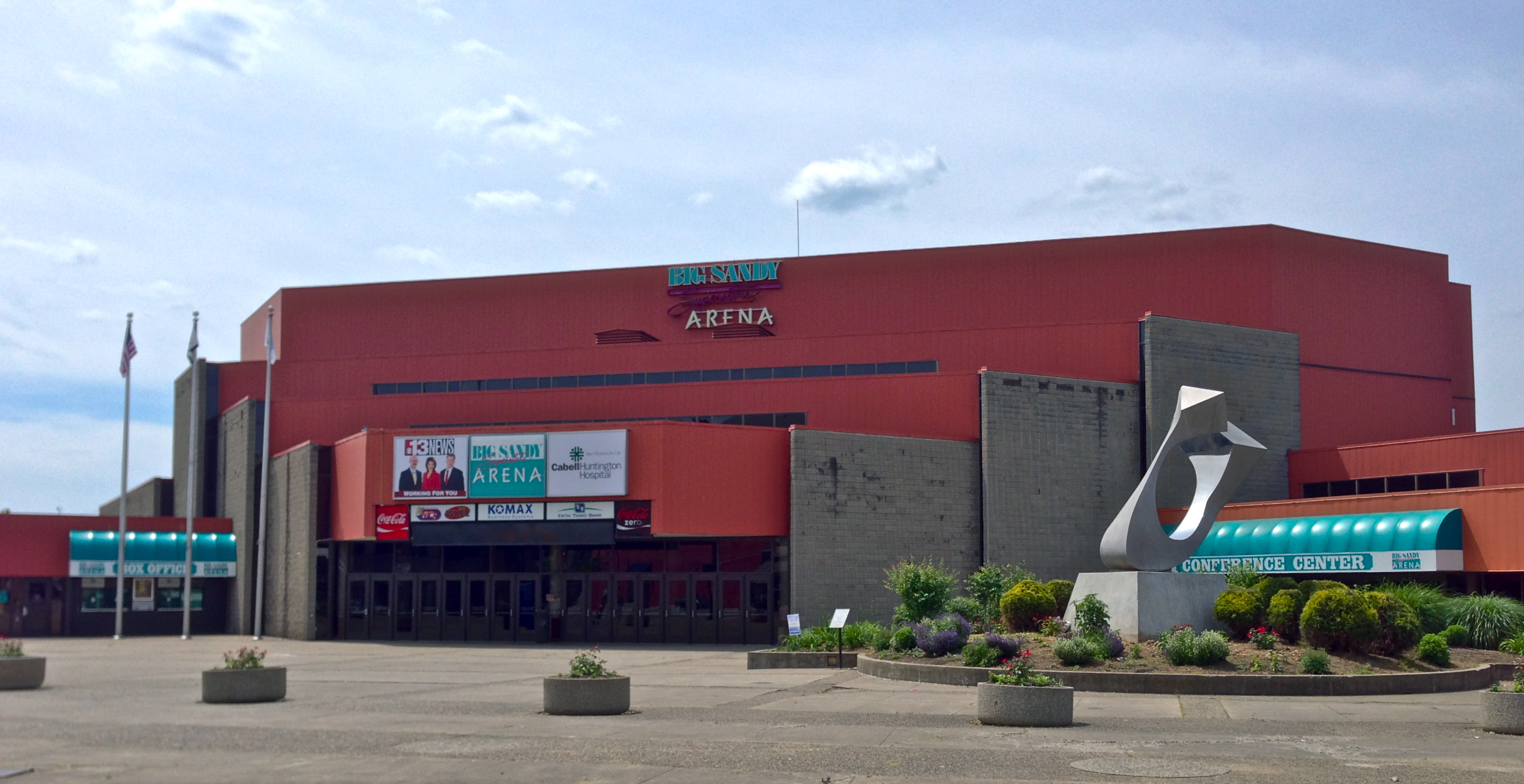 The Big Sandy Superstore Arena in Huntington, WV, as seen from across 8th Street.